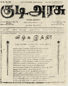 Front page of the Tamil Magazine Kudiyarasu dated 03 September 1939. It was run by Periyar. E. V. Ramasamy. There is an editorial titled "Veezhga Indhi" (Down with Hindi) written as part of the Anti Hindi Agitations of 1937-40